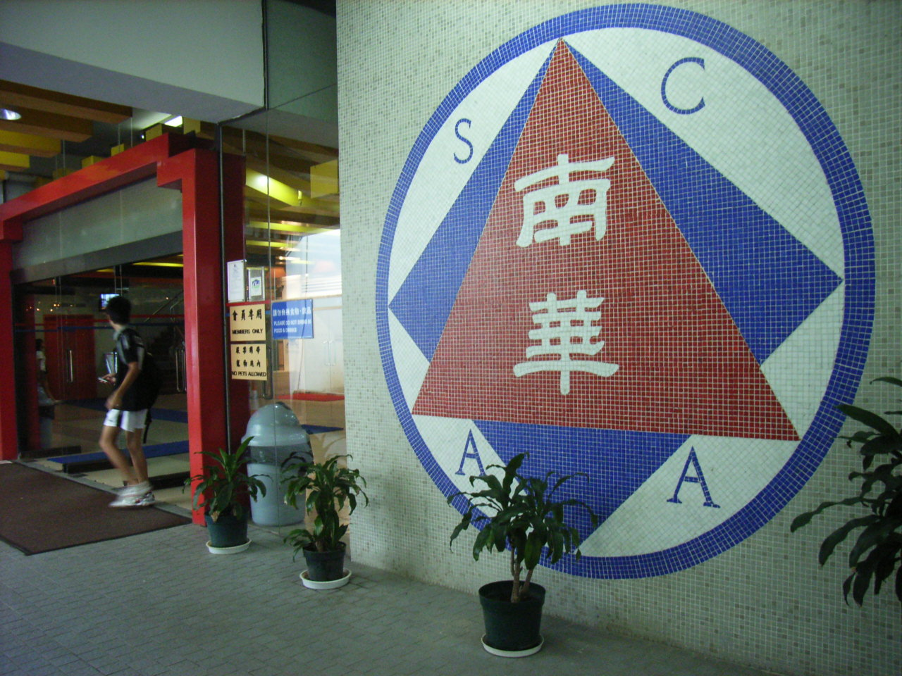 加路連山道 (Caroline Hill Road) 是香港島銅鑼灣南部，香港大球場以北的一條馬鐵U形街道，其中有歷史尤久的南華體育會(South China Athletic Association)，還有77號的香港孔聖堂小學(Confucius Hall Primary School)。 Author: BEVERLYSHEN